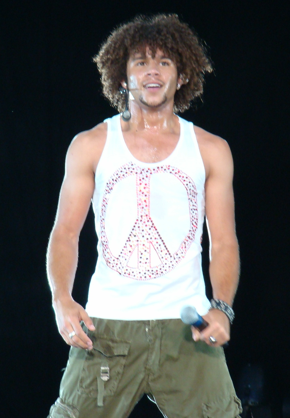 Corbin Bleu Concert in October 2007.